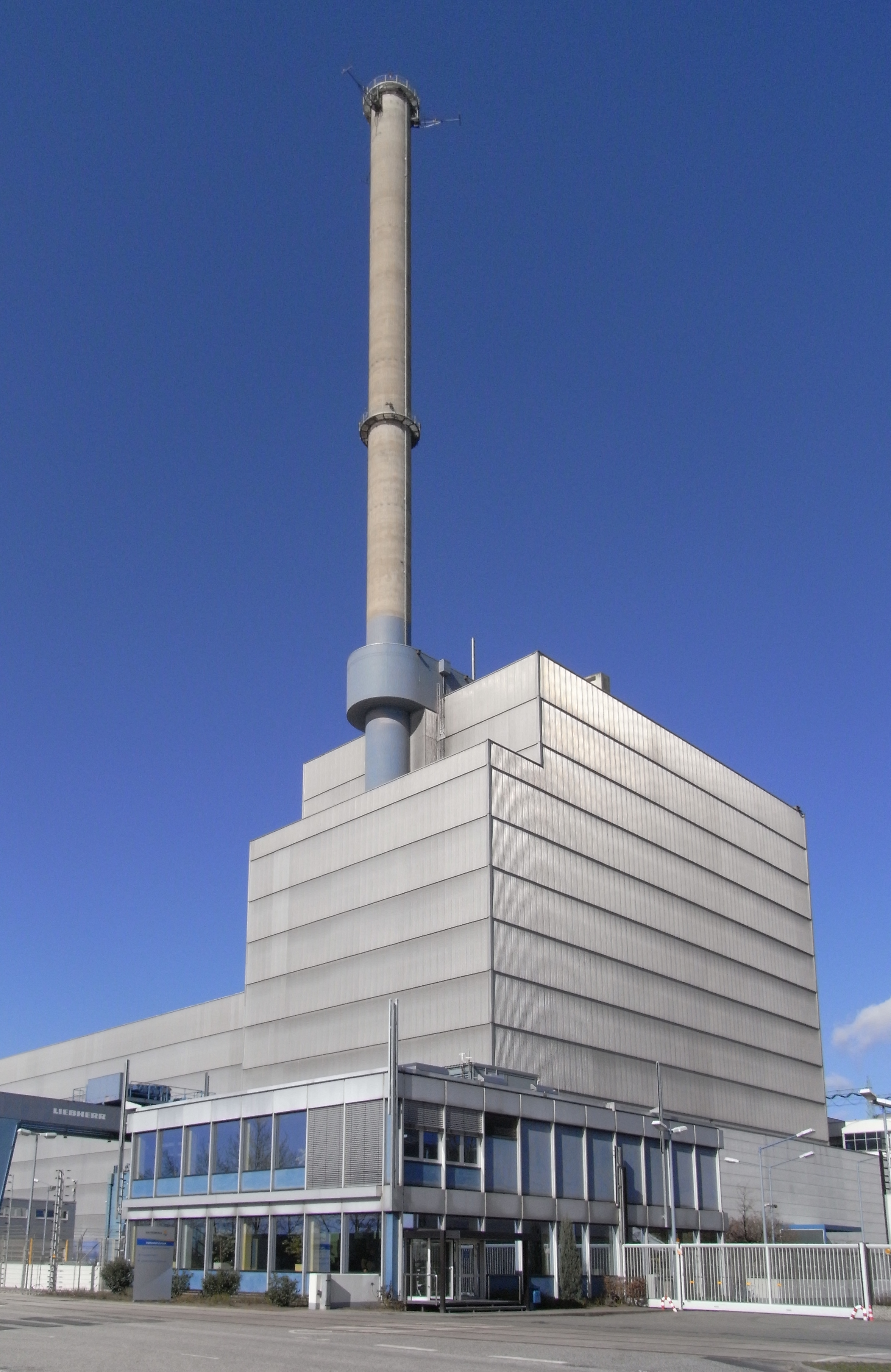 Krümmel nuclear power plant (front view) in Schleswig-Holstein, Germany.